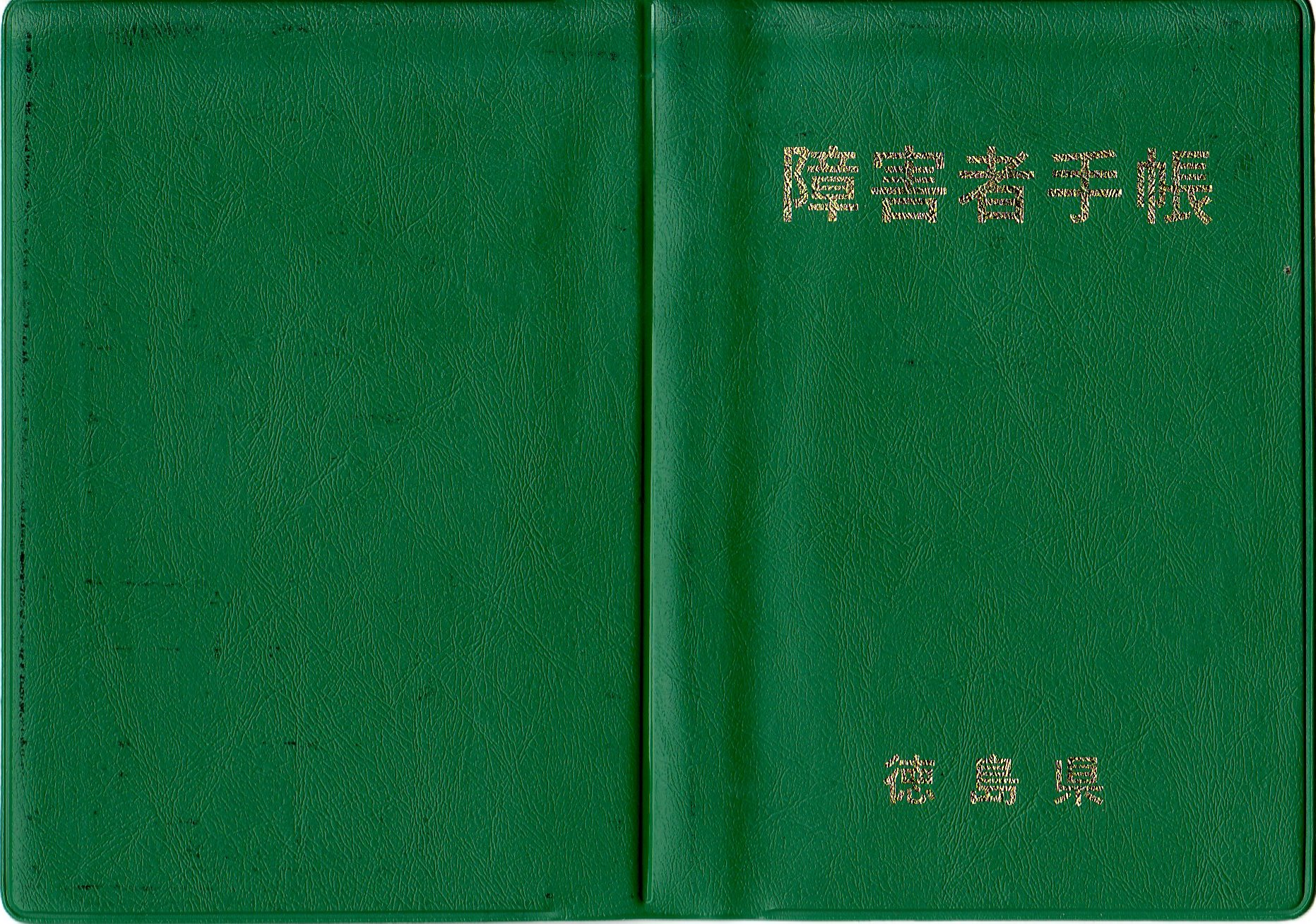 the mental patient health welfare notebook in Japan